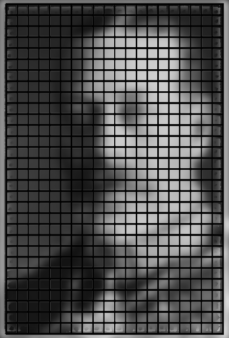 Giorgio V — Ground-Glass